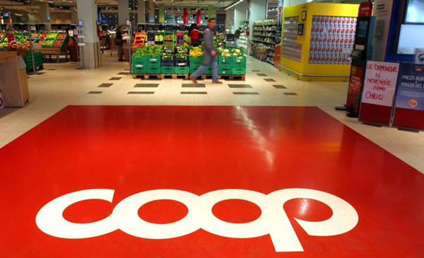 Supermercato Coop